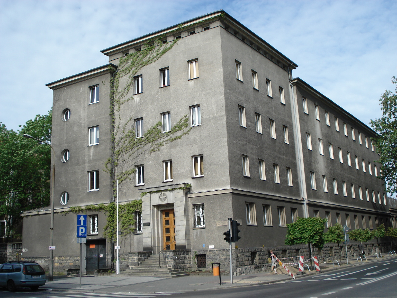 Poznań, the Dominican Friars monastery. Proj. by Stefan Cybichowski, 1939